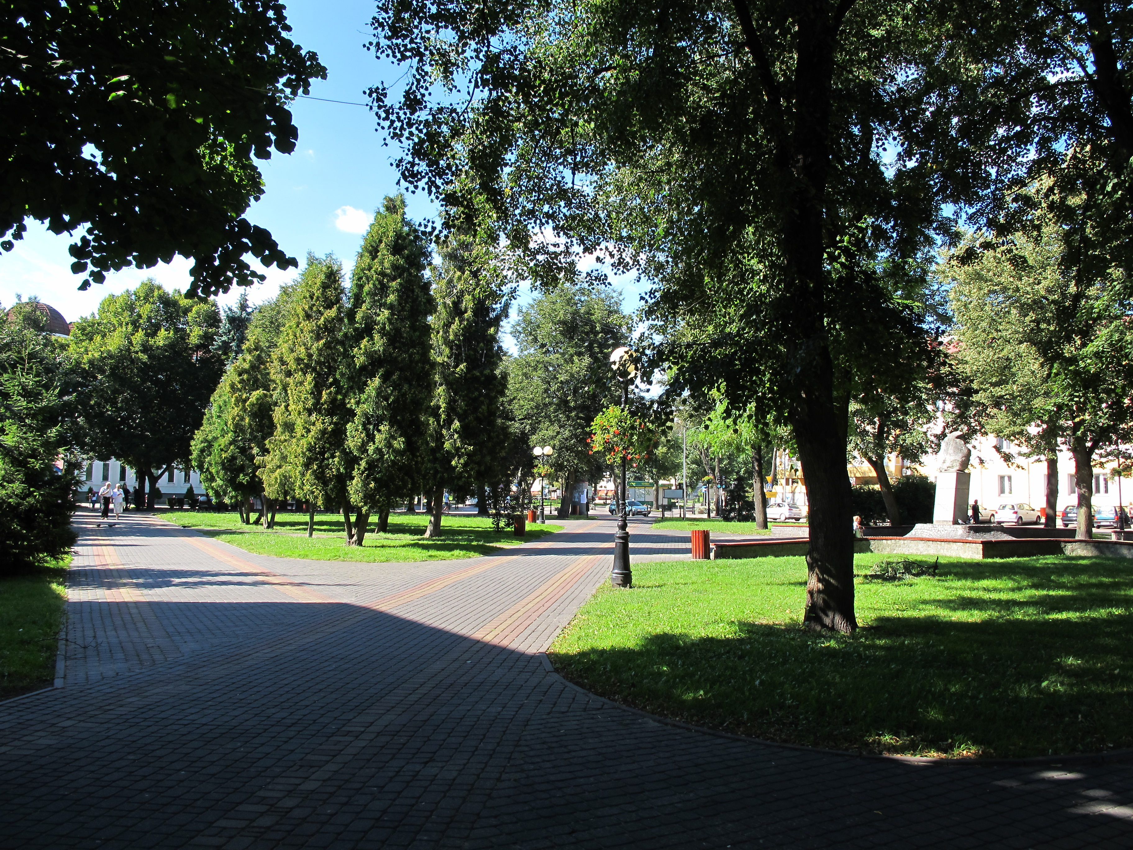 City park in Bielsk Podlaski, Poland